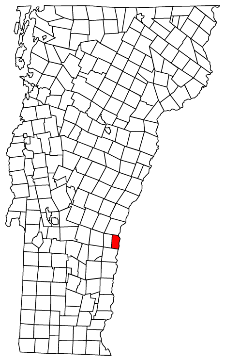 Description: Map of Vermont towns with Windsor highlighted Source: Map created by Jared C. Benedict on 26 March 2004. Copyright: © Jared C. Benedict.